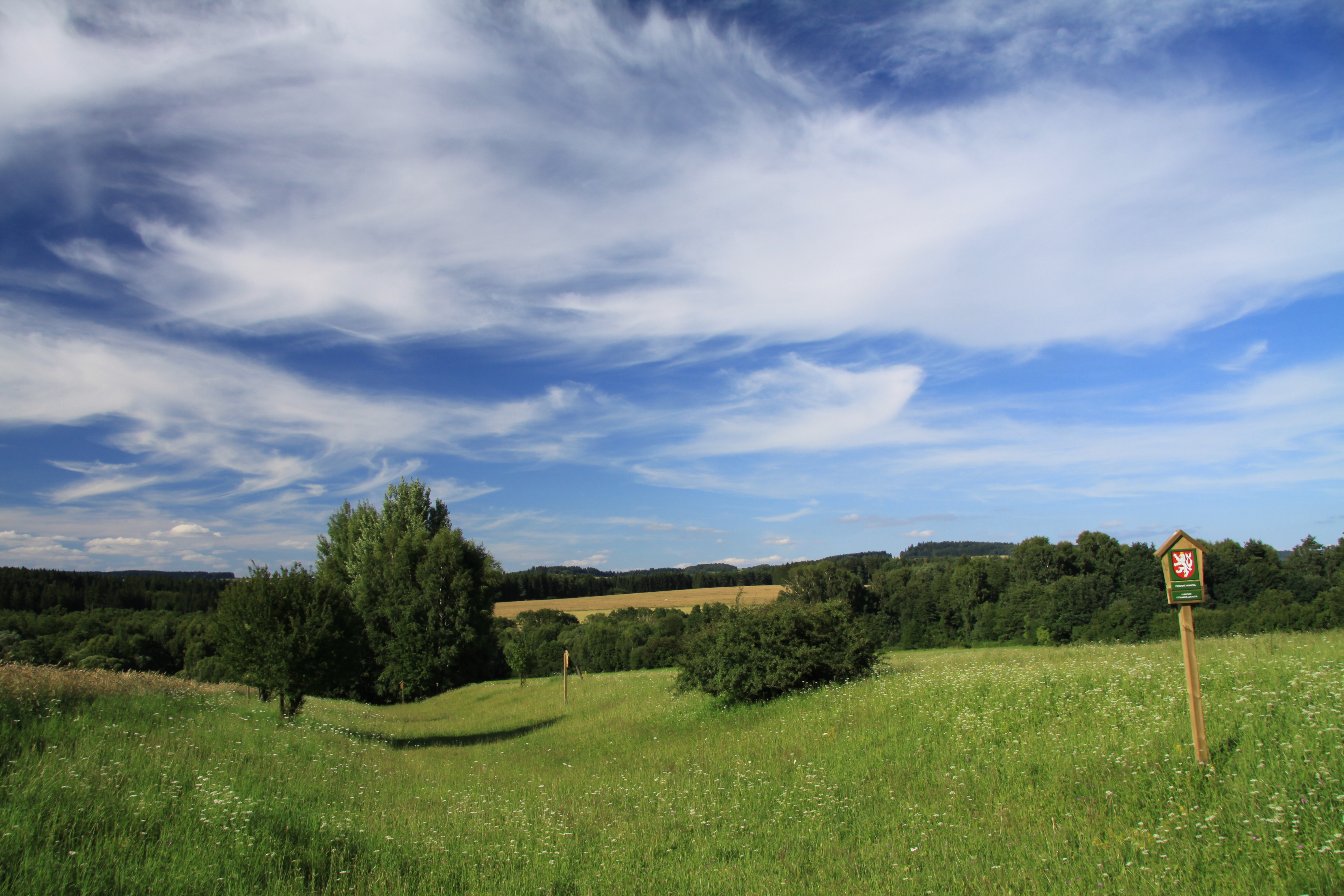 Natural monument Hroby near Hroby village in Tábor District, Czech Republic - Google Maps - Google Earth